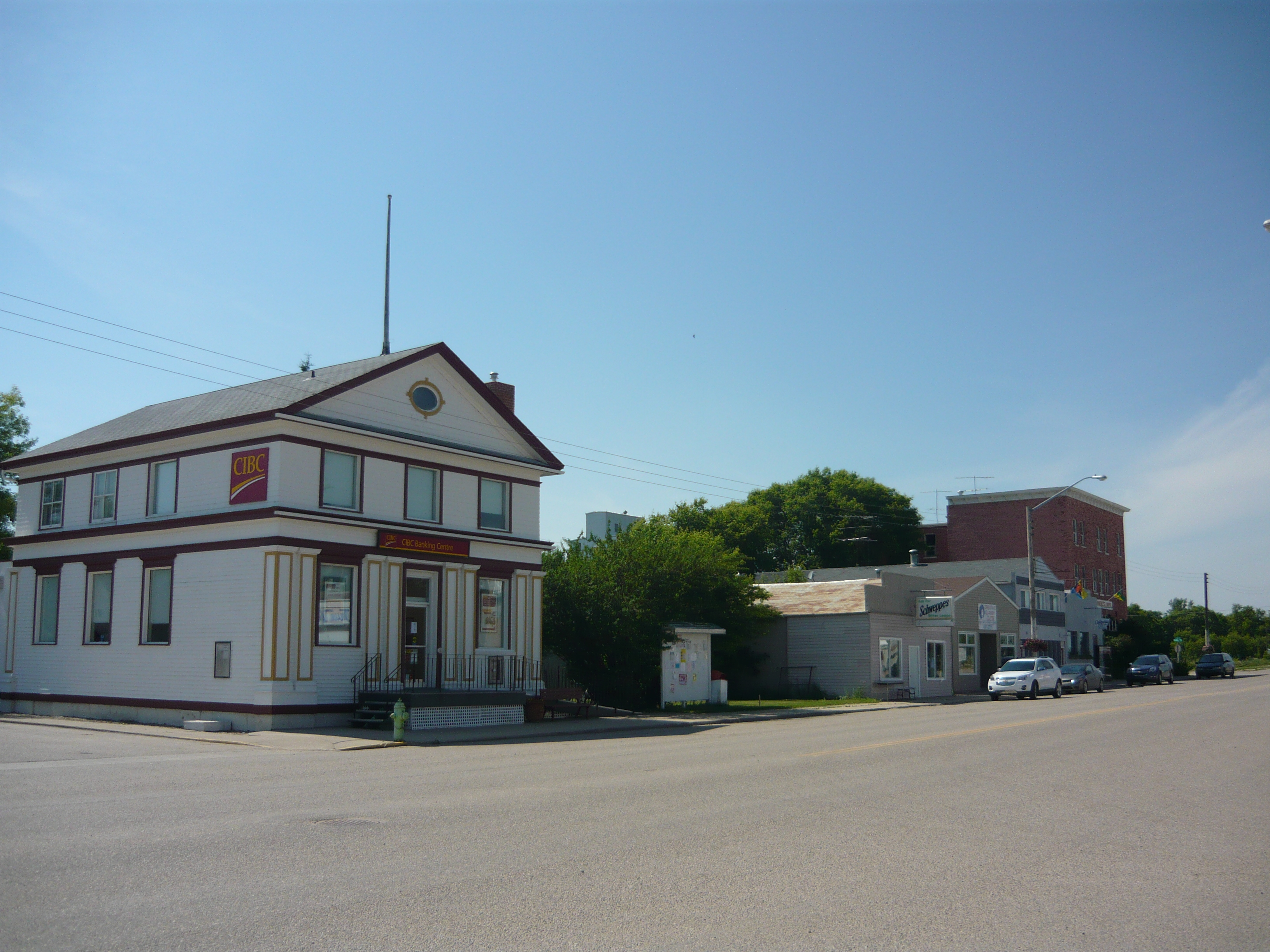 Looking northwesterly on Main Street, Town of Blaine Lake, Saskatchewan, Canada. The two-story building in the foreground is CIBC (Canadian Imperial Bank of Commerce). The three-story brick building in the distance is the Commercial Hotel.